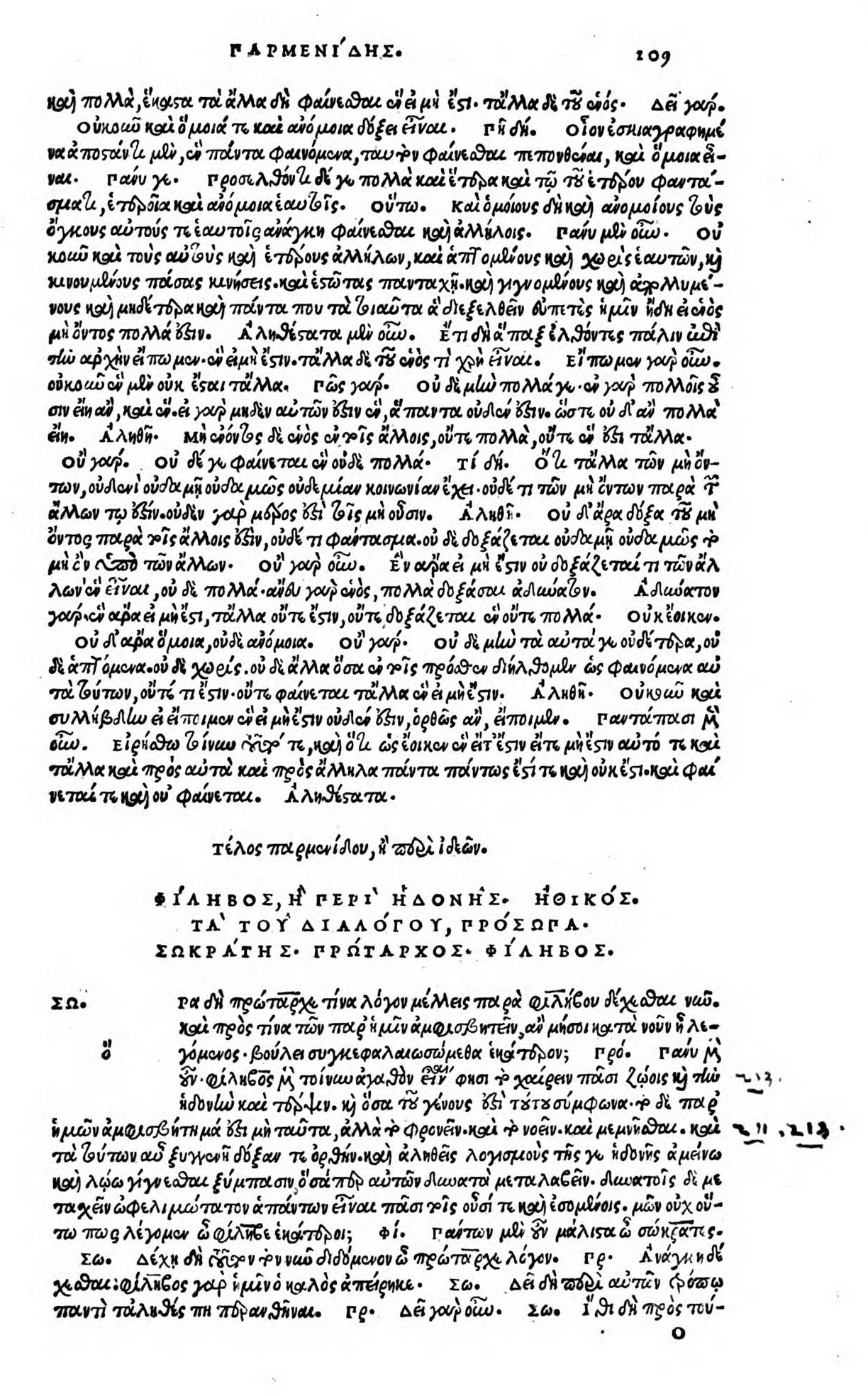 Philebos beginning. Editio princeps, Venice 1513.